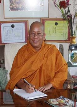 The Founder and Chairman of Banophool Adibashi Green Heart College and Banophool Adibashi Education Foundation Trust.